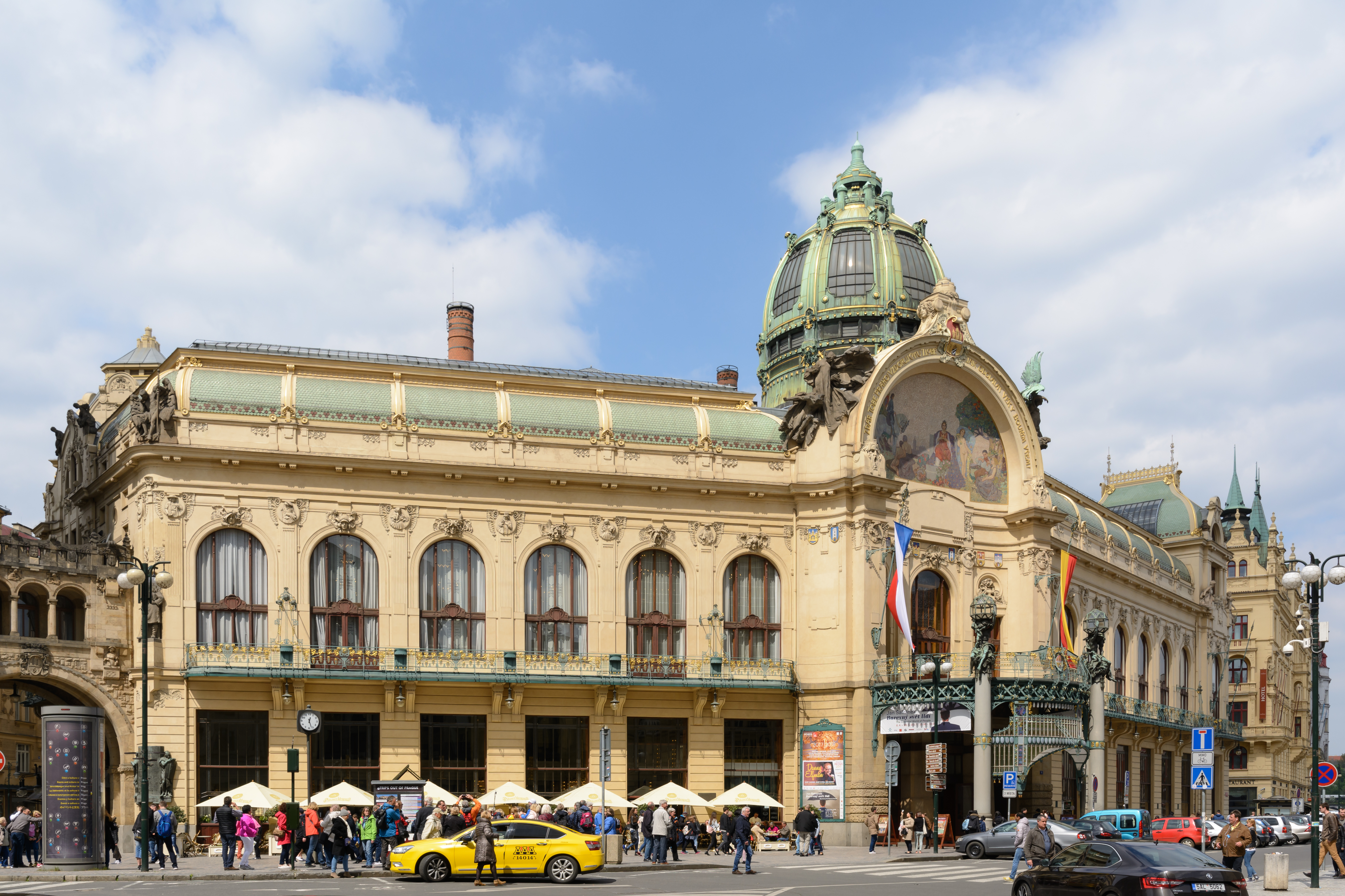 Municipal House (in Czech Obecní dům) in Prague, Czech Republic